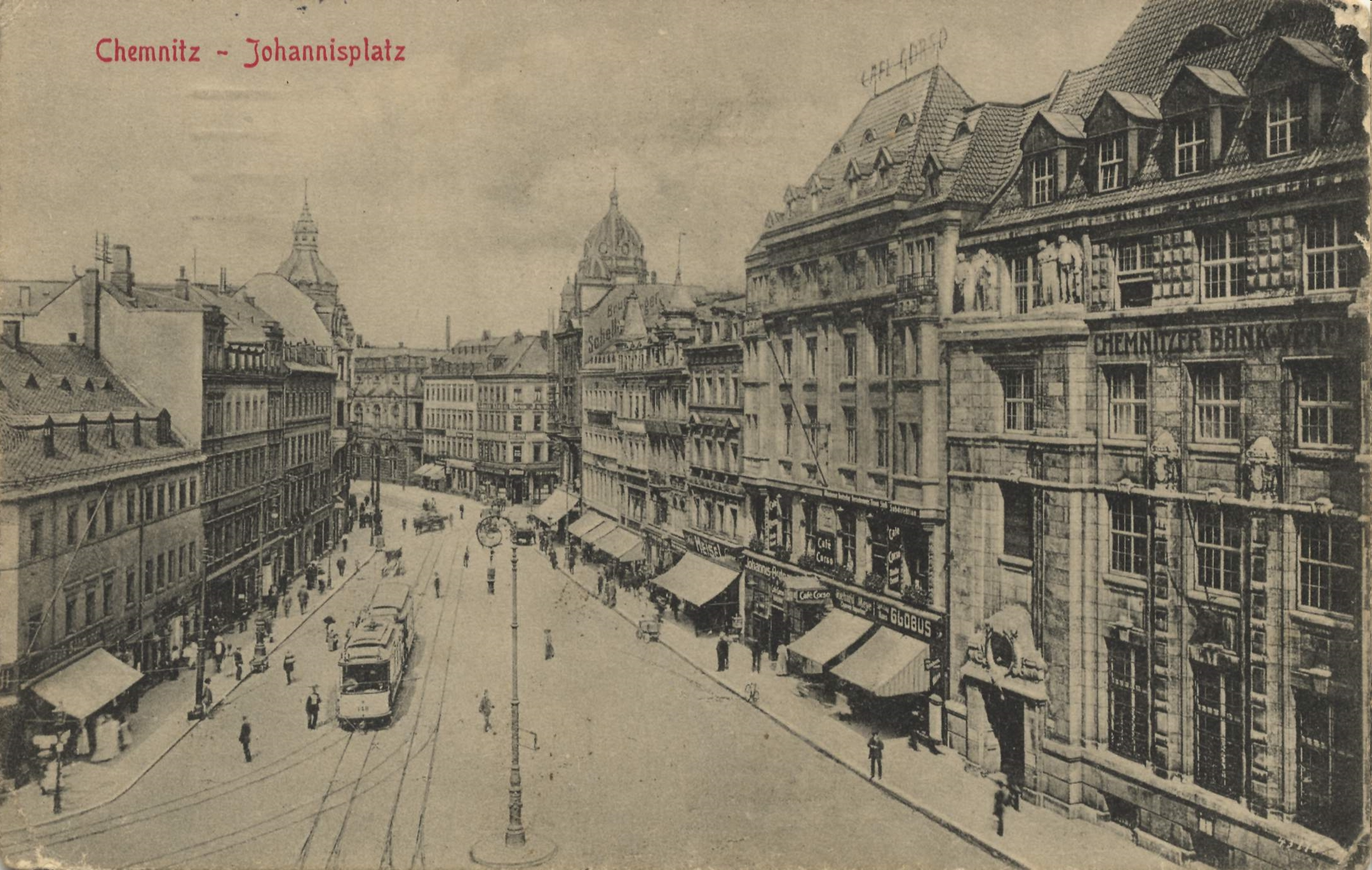 Old Square Johannisplatz in Chemnitz